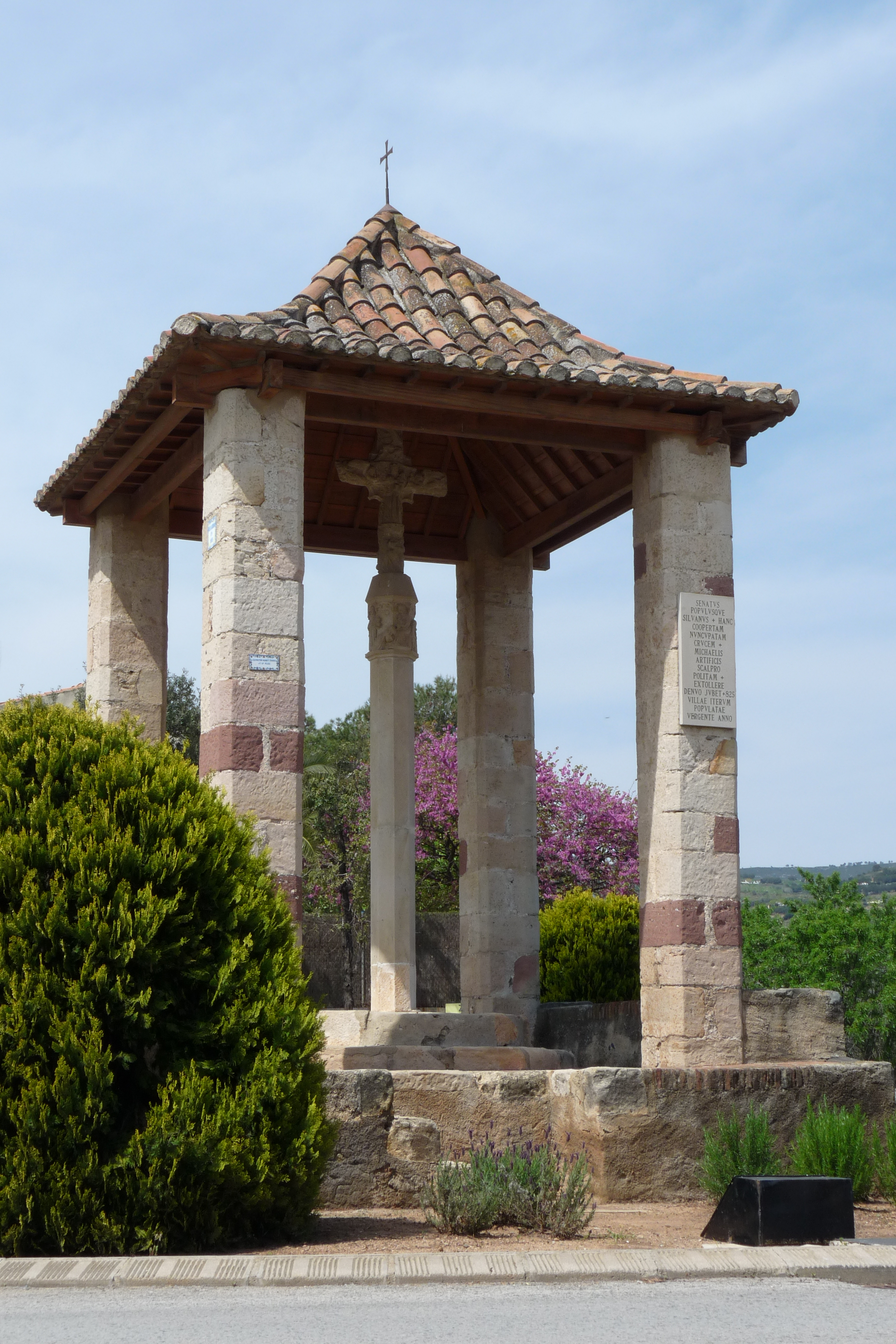 Covered boundary cross of la Selva del Camp